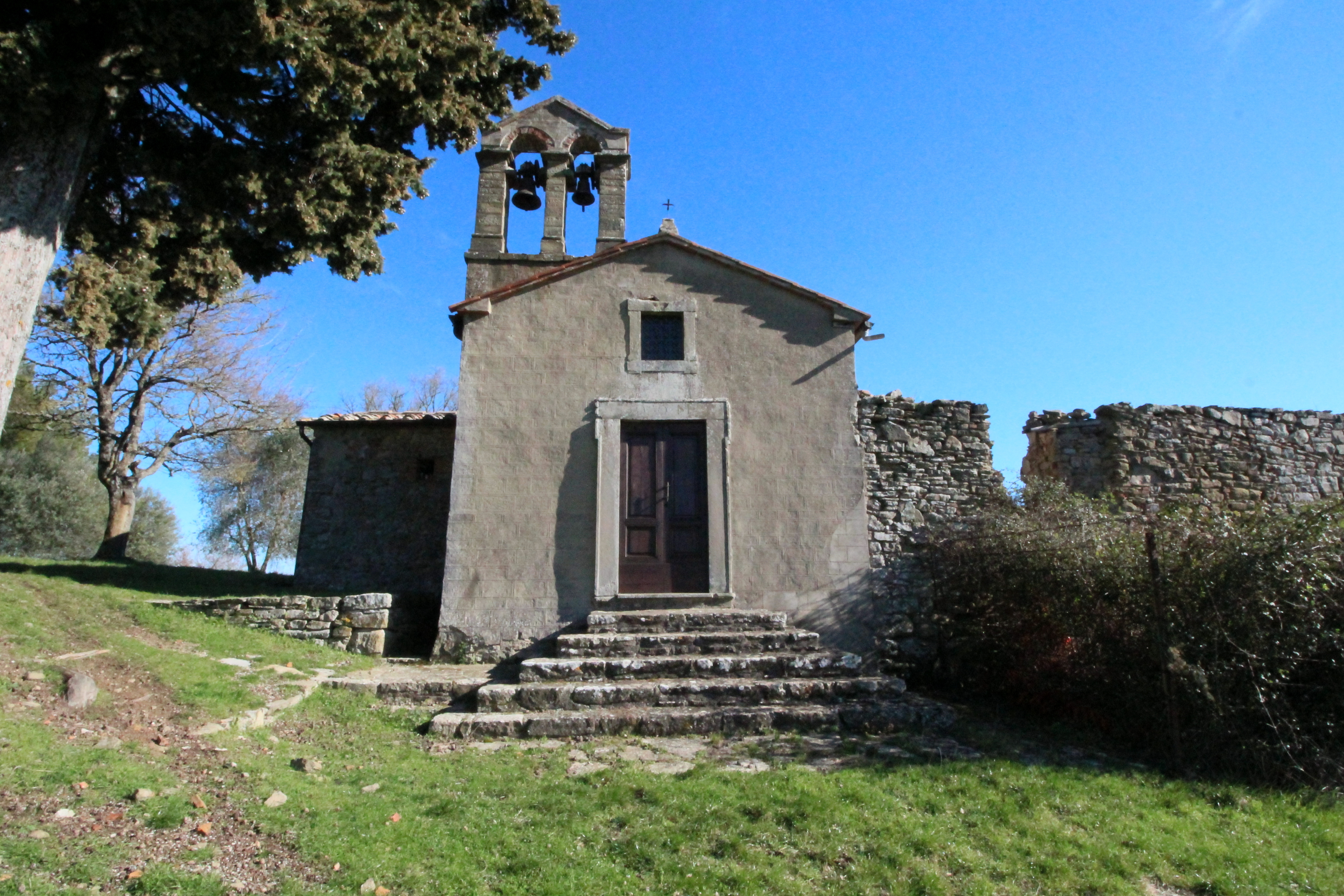 Church/Sanctuary Santuario di Santa Maria della Neve, località Castelvecchio a Migliari, Pergine Valdarno, Province of Arezzo, Tuscany, Italy